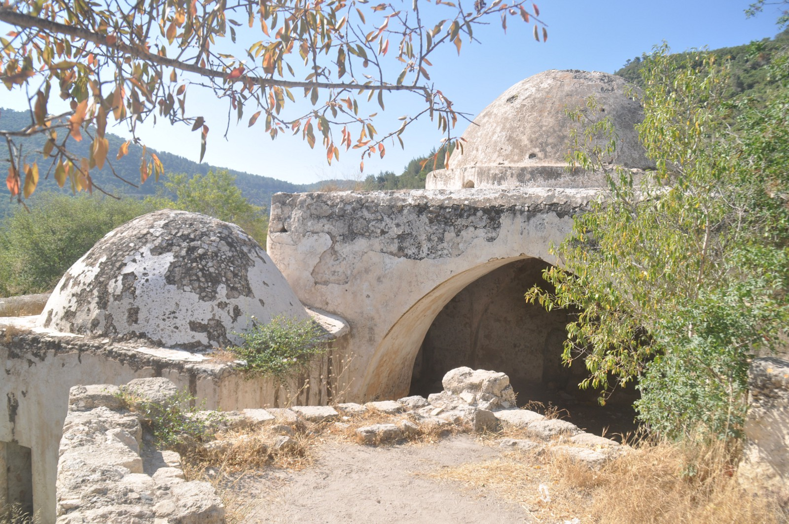 Geography of Israel